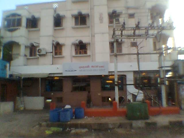 Murugan Idly kadai